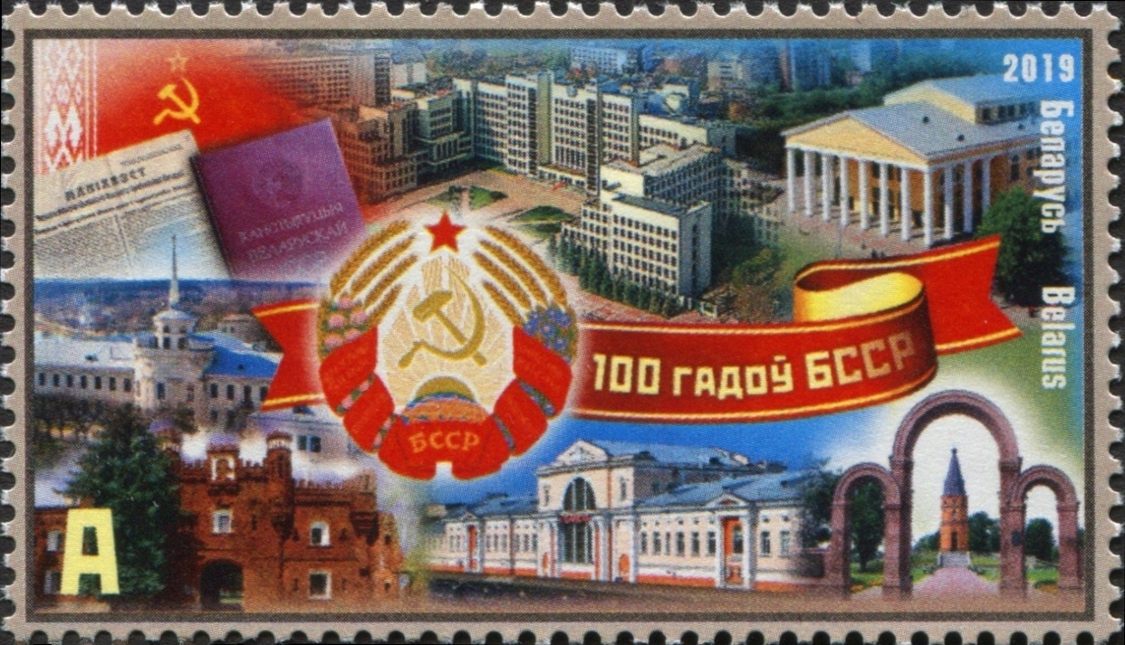 100 years of the Byelorussian Soviet Socialist Republic